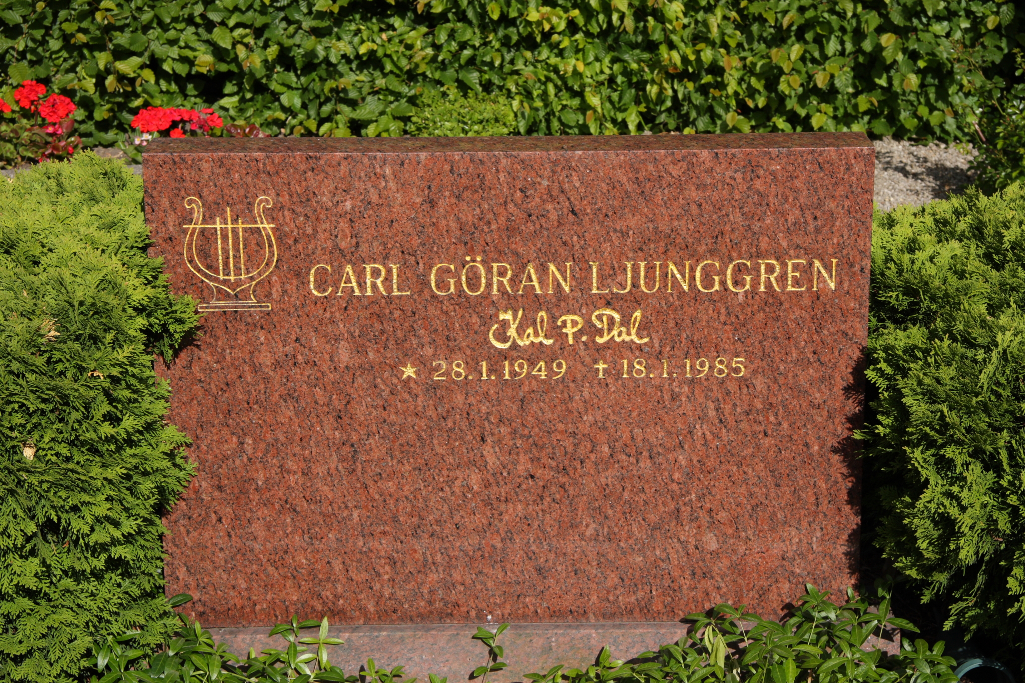 The tombstone of Carl Göran Ljunggren - Kal.P.Dal (28.1.1949 - 18.1.1985). located at Norra kyrkogården, Lund, Sweden.